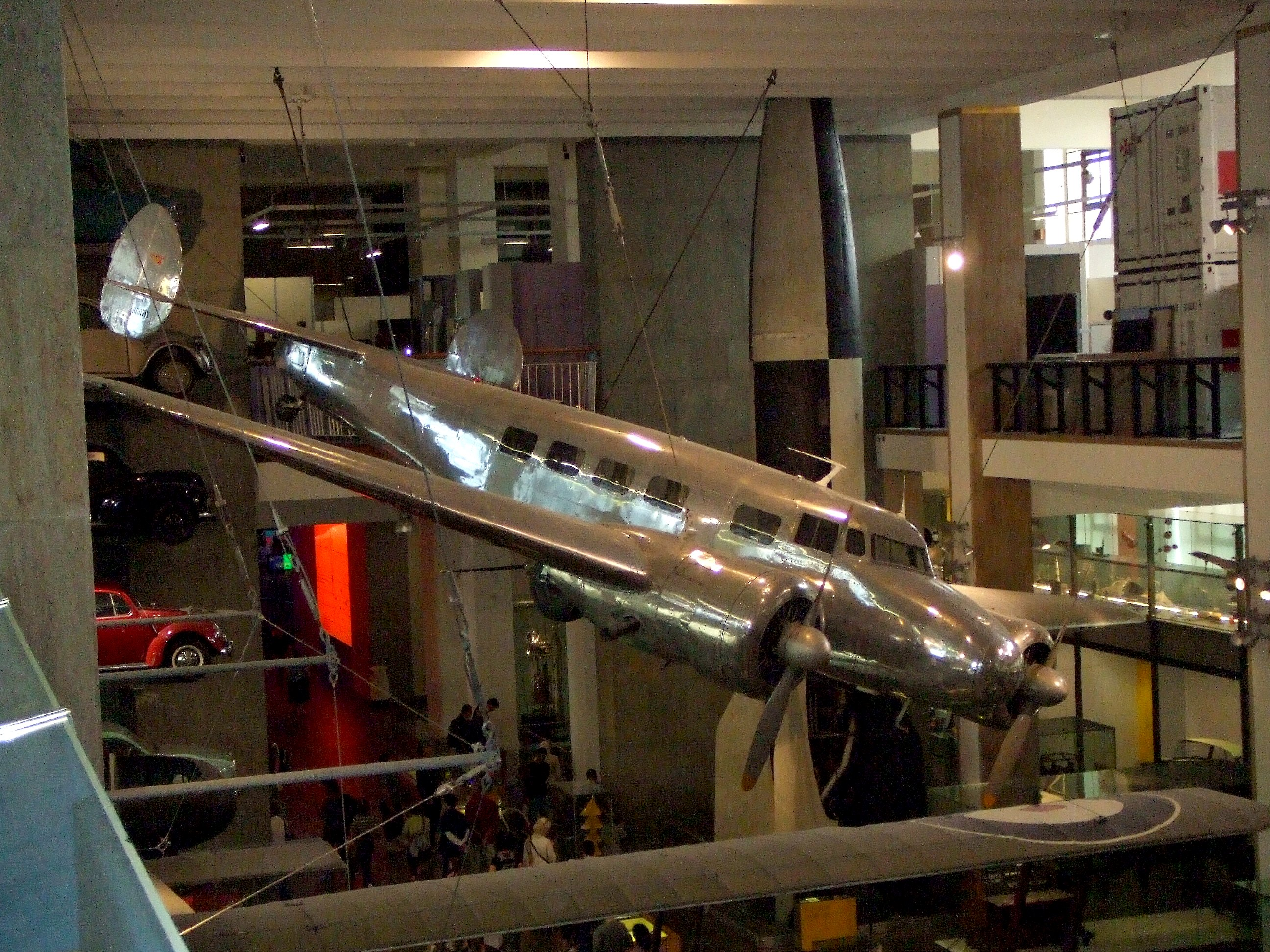 Lockheed Electra at the Science Museum, South Kensington, 3/07.